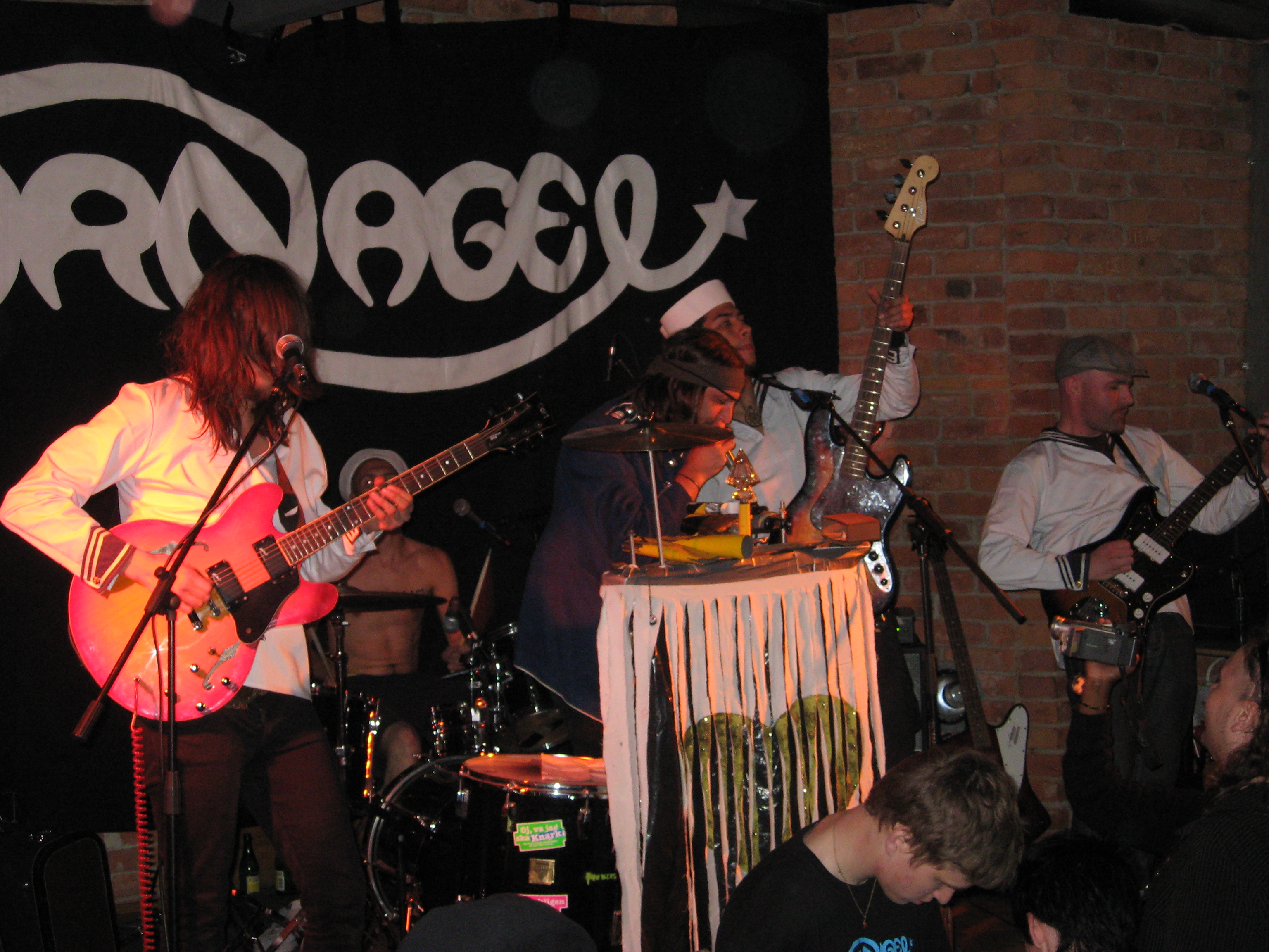 Kungers playing at Veille Montagne, May 24, 2008